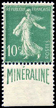 Postage stamp of France, Marianne type Semeuse camée, 10 centimes, 1927, with advertising coupon Mineraline